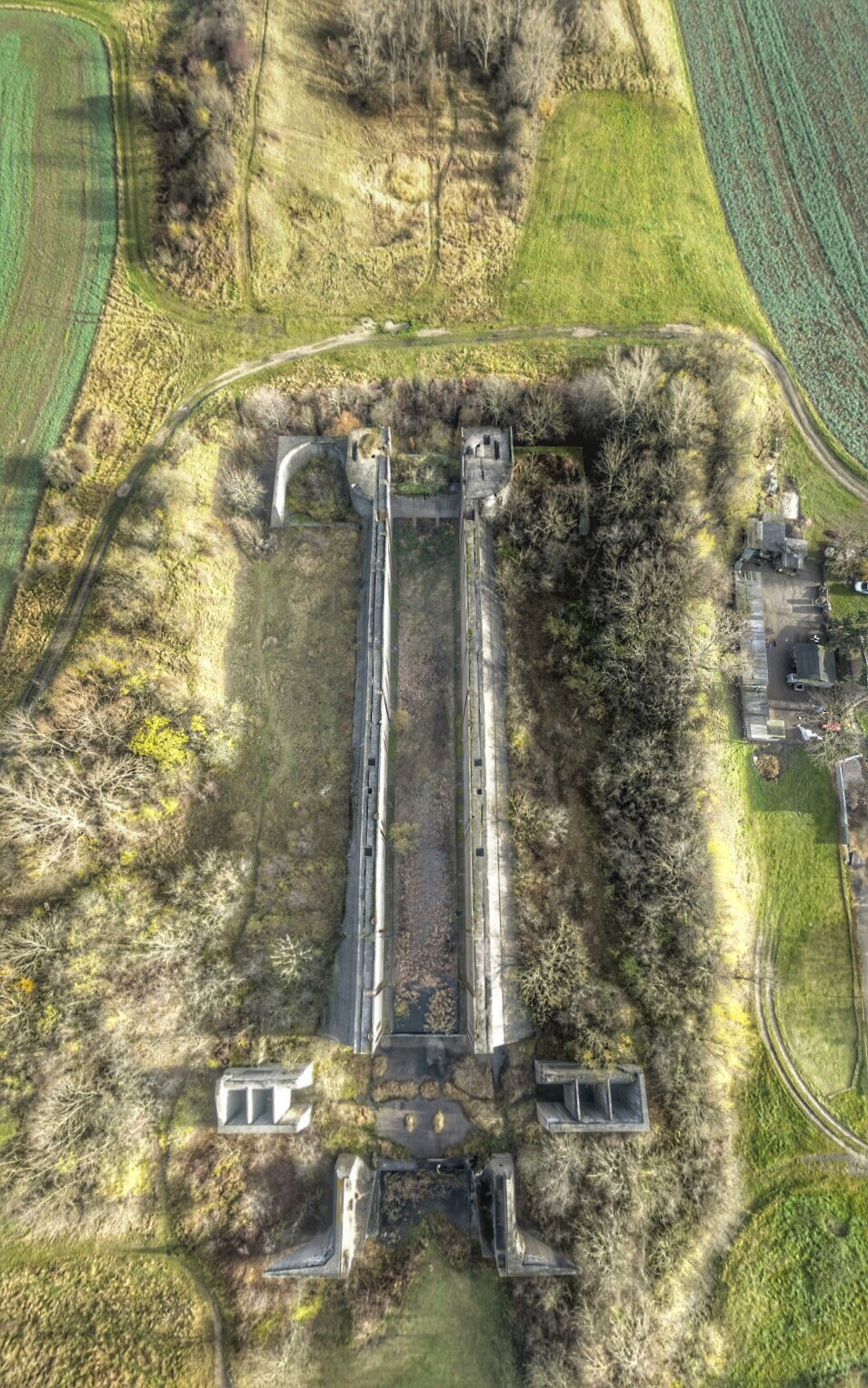 Schleusenruine